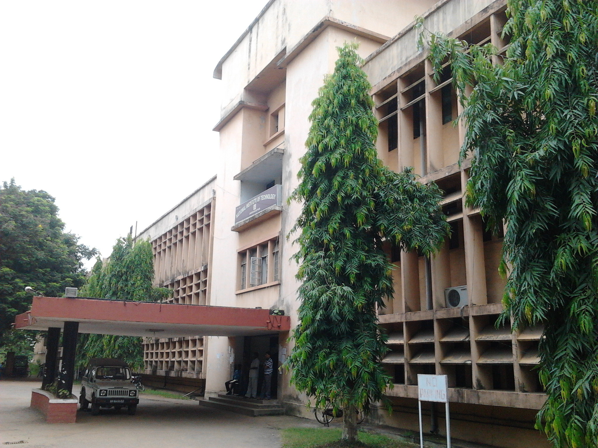 NIT Jamshedpur Main Administrative Building